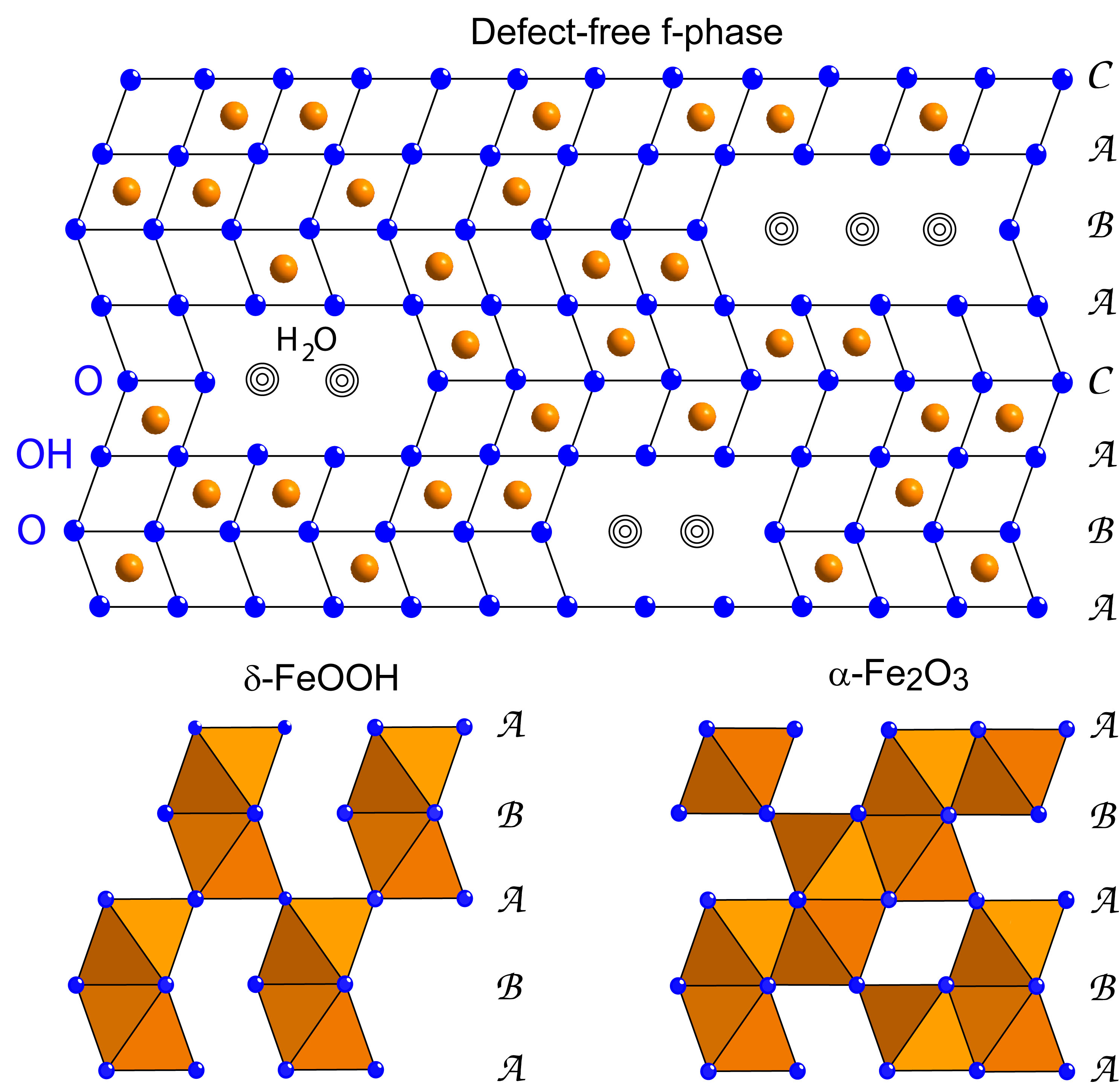 Structural representation of the three main constitutive components from ferrihydrite, based on the standard model by Drits et al. (Clay Minerals, 1993, vol. 28, 185-207). On top is the dominant defect-free f-phase, on the bottom left is the defective feroxyhite-like (delta-FeOOH) d-phase, and on the bottom right is the nanocrystalline hematite (alpha-Fe2O3). Adapted from Manceau (Clay Minerals, 2009, vol. 44, 19-34).